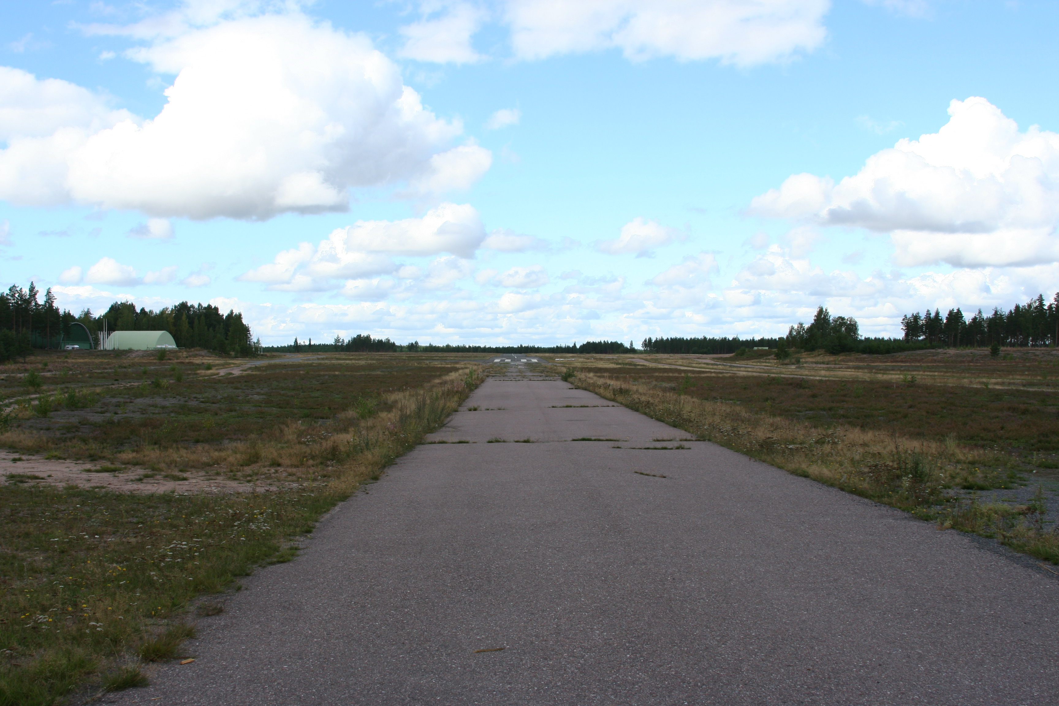 Oripää aerodrome, Oripää, Finland. Runway 14/32 seen from Hirvikoskentie.